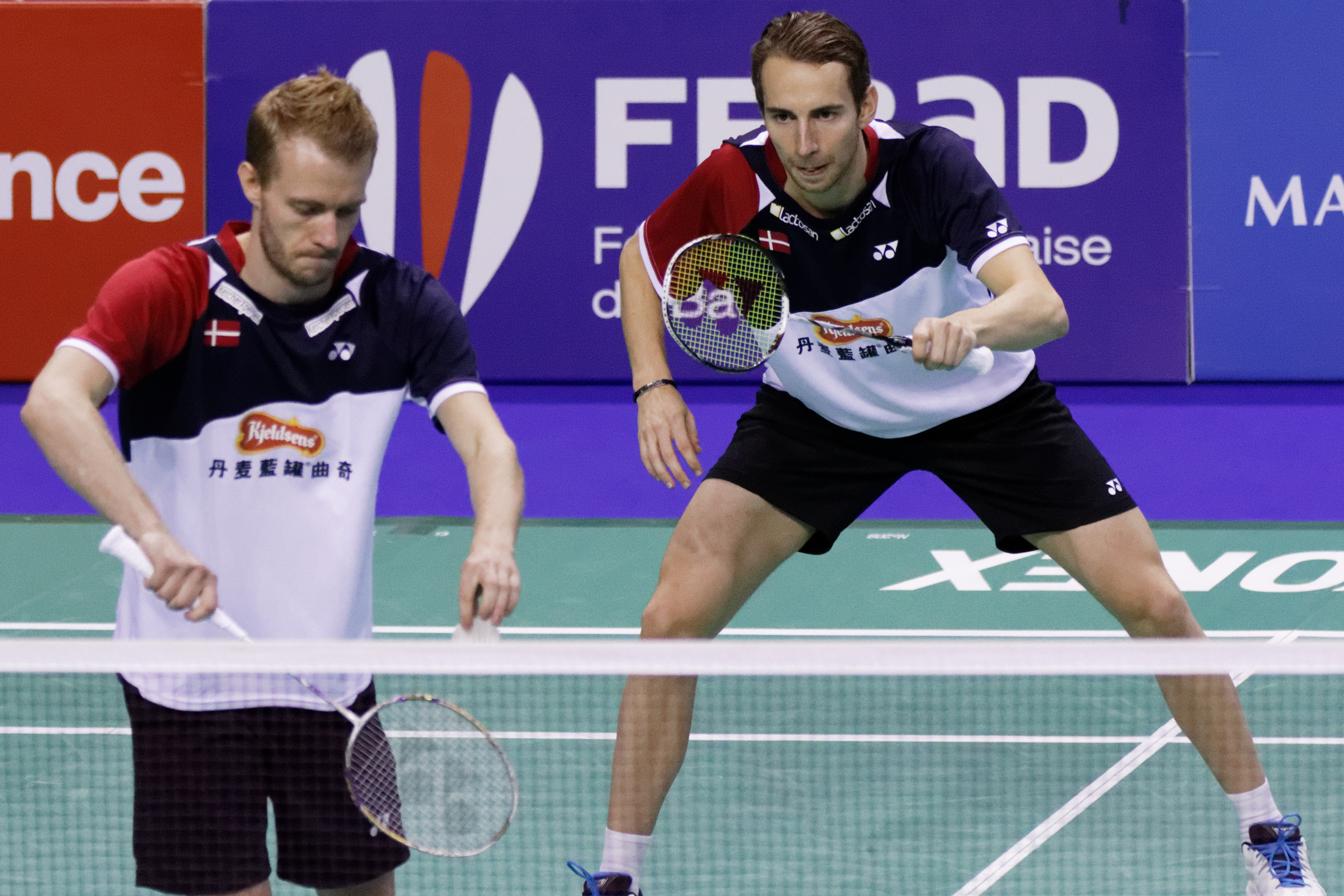 2013 French open. Men's doubles eightfinal. Łukasz Moreń and Wojciech Szkudlarczyk vs Mathias Boe and Carsten Mogensen.